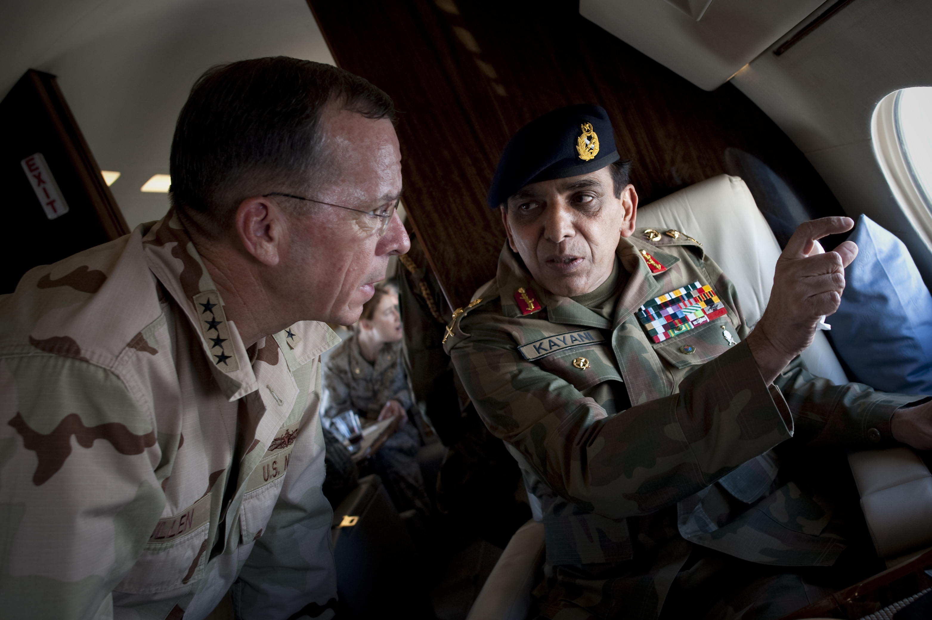 Pakistani Chief of Army Staff Gen. Ashfaq Parvez Kayani points out a feature to Chairman of the Joint Chiefs of Staff Adm. Mike Mullen, U.S. Navy, during an aerial tour of Northern Pakistan on July 24, 2010. Mullen stopped in Pakistan during his 10-day, around the world tour to meet with counterparts and underscoring the criticality of the relationship in the war on terrorism.